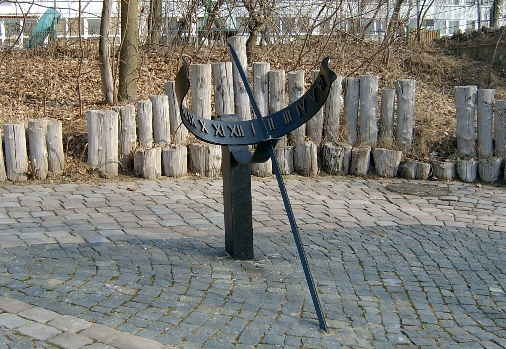 sundial in Frankfurt (Oder).